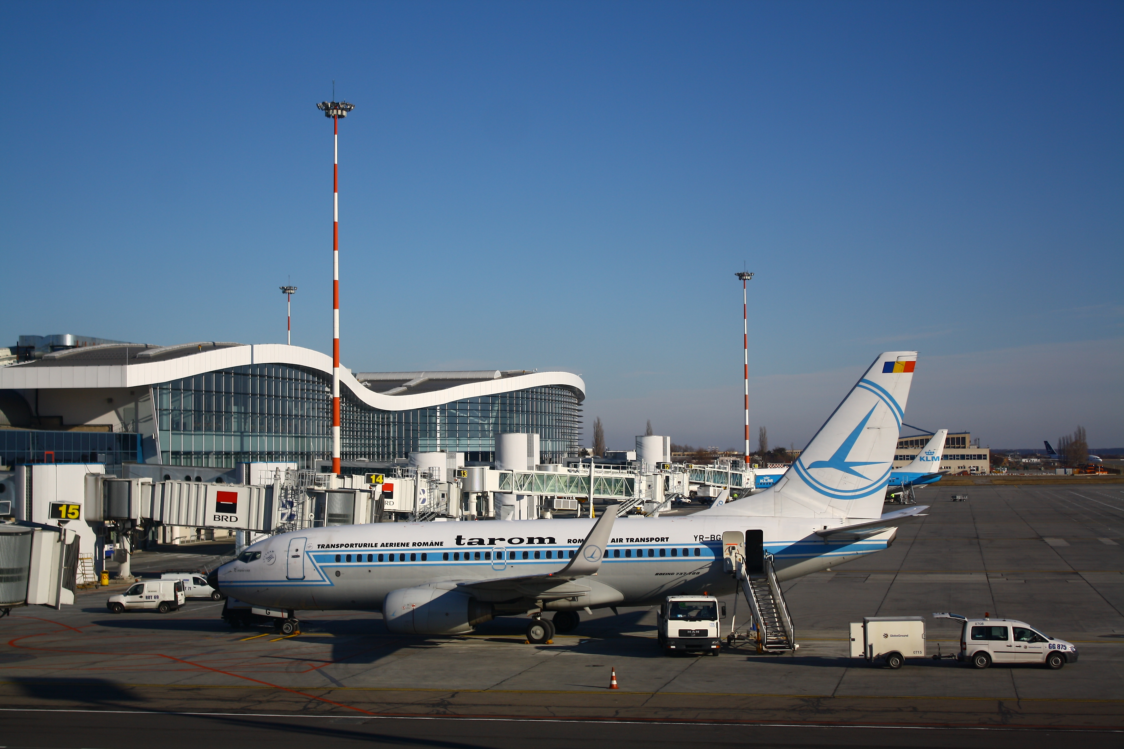 TAROM Boeing 737 (YR-BGG "Craiova", retro scheme) and KLM Boeing 737 serviced at the new OTP airport finger terminal